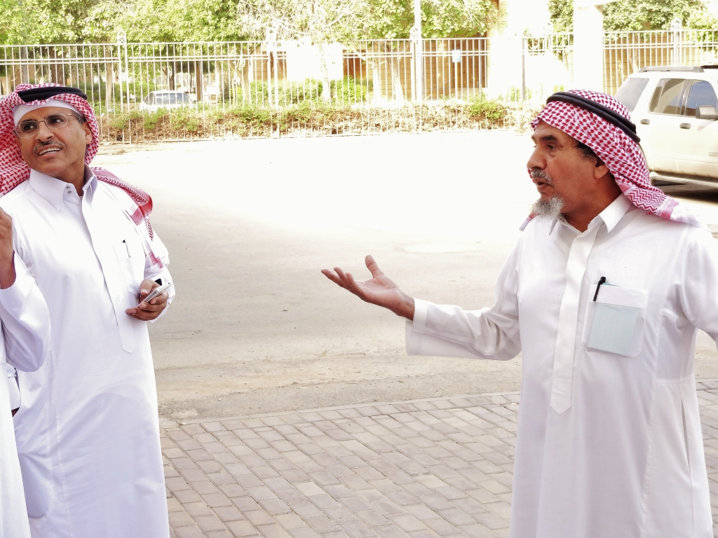 From left to right: Fozan al-Harbi, Mohammad al-Qahtani and Abdullah al-Hamid after the seventh hearing session.